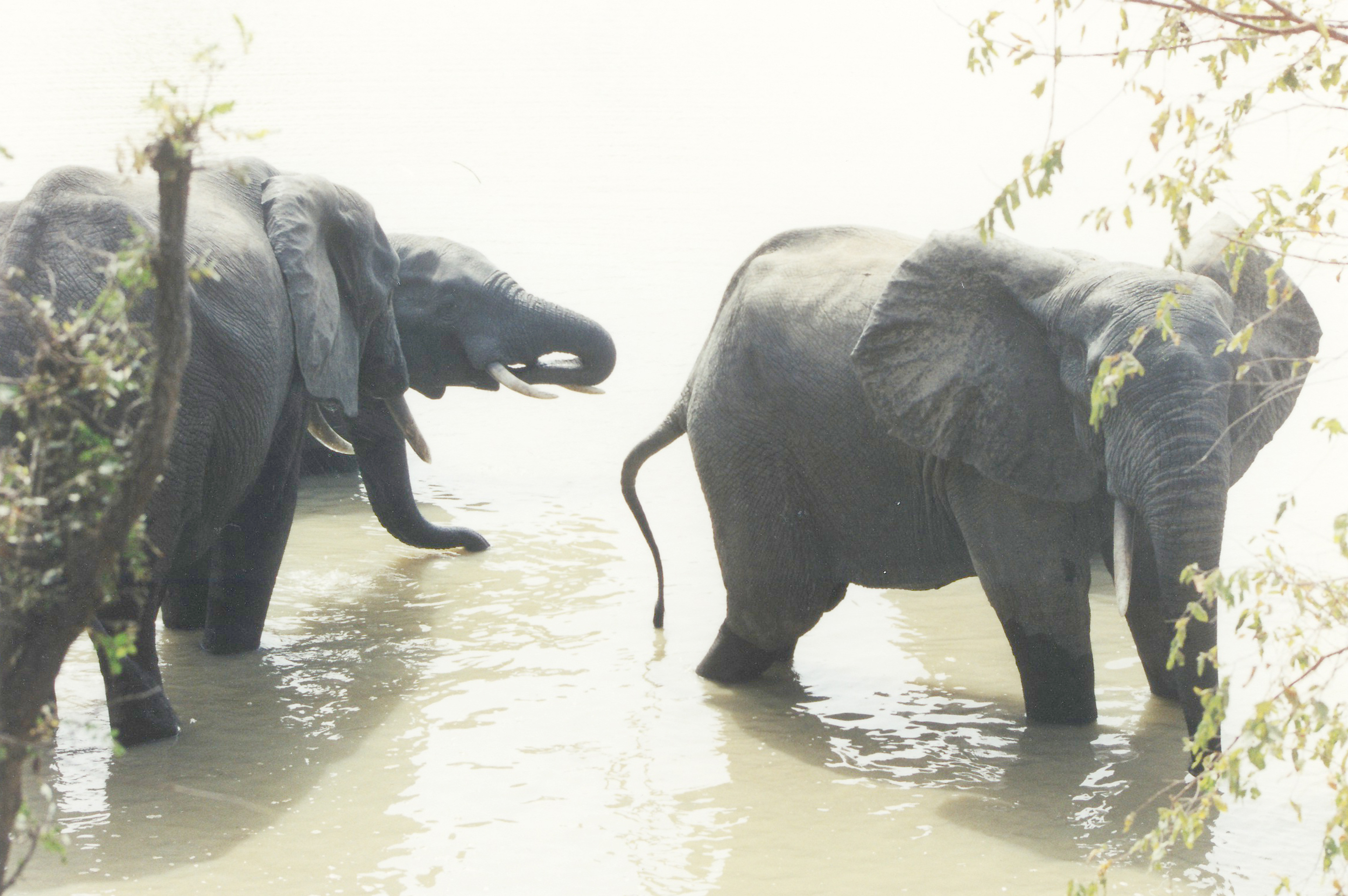 African Elephants.